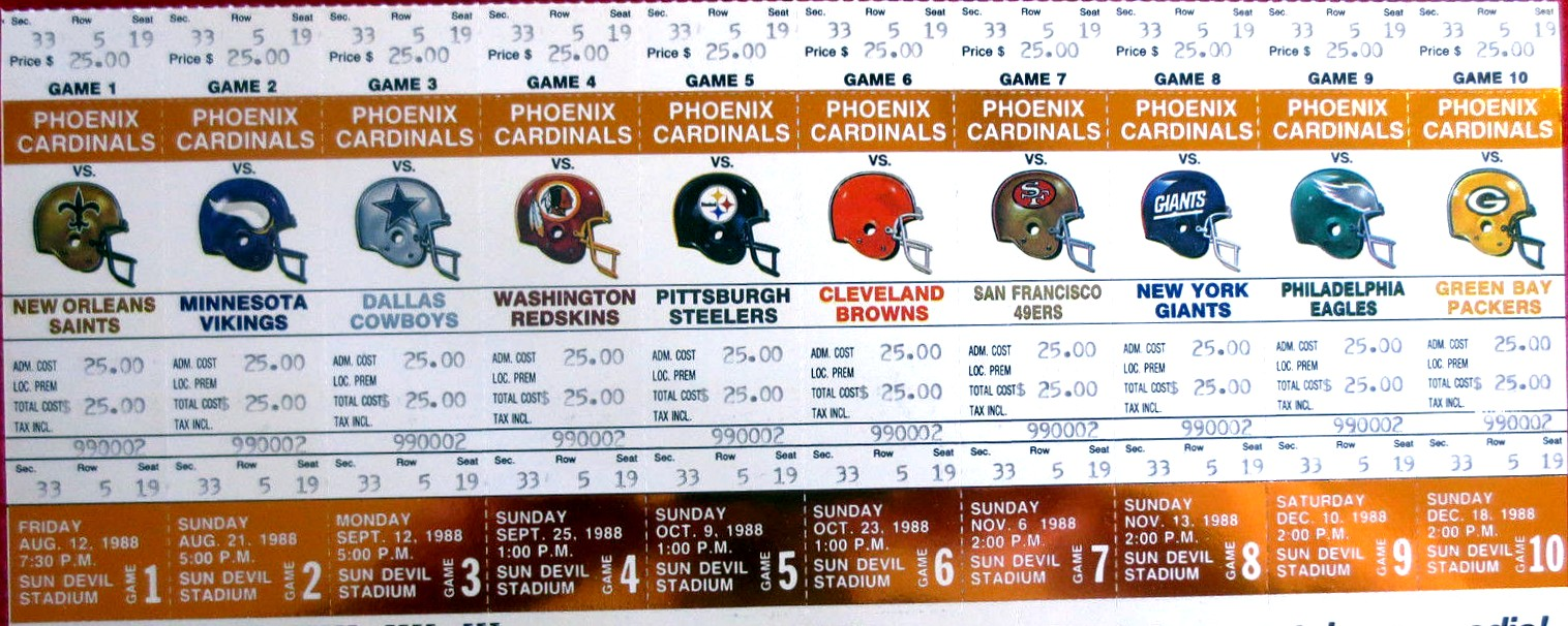 A booklet of season tickets from the Phoenix Cardinals' inaugural 1988 season in Arizona.